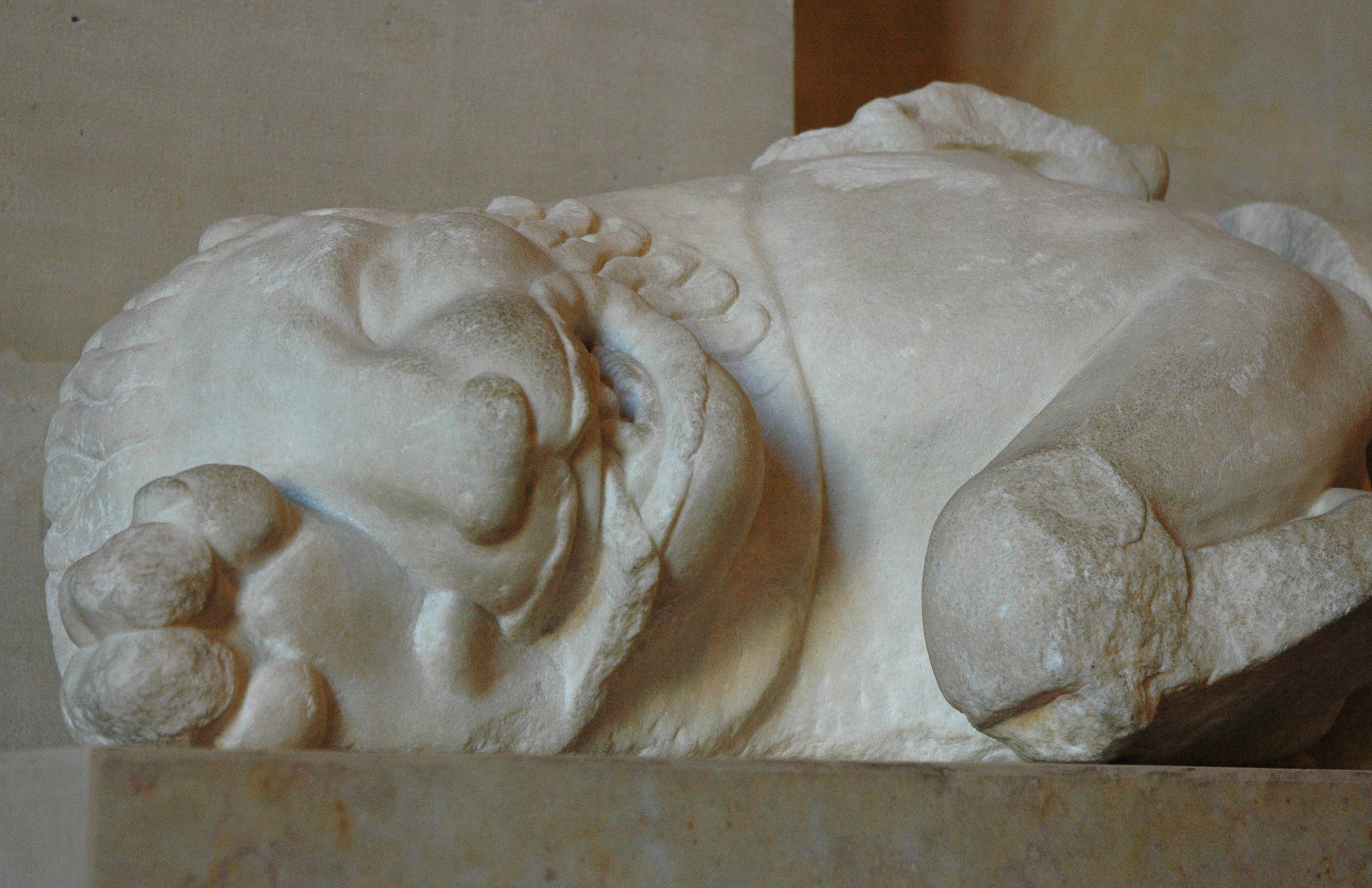 The Nemean lion being trod upon by Herakles. First metope of the West porch, temple of Zeus at Olympia. Parian marble, ca 460 BC.